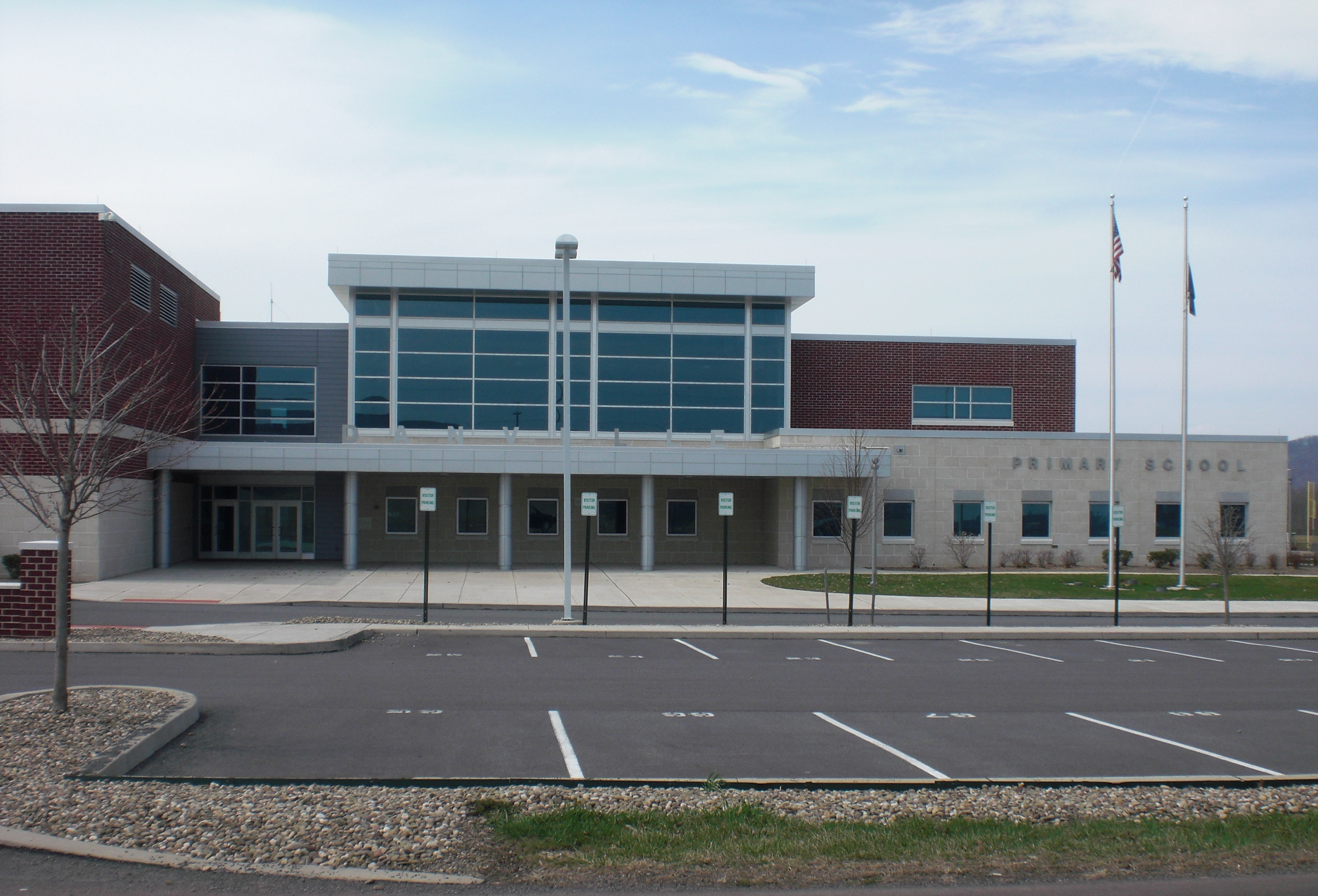 Part of the Danville Primary School building.